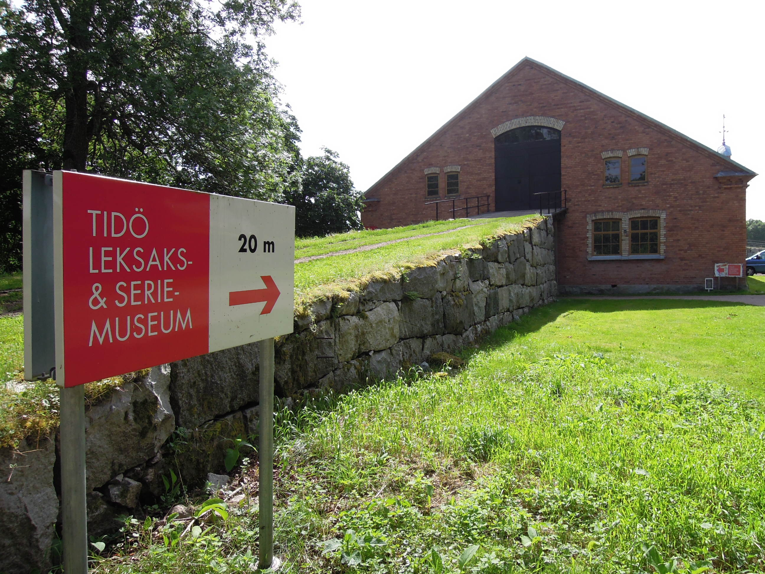 Tidö Leksaks & Seriemuseum (Tidö Toy and Comics museum) located outside Västerås, Sweden.